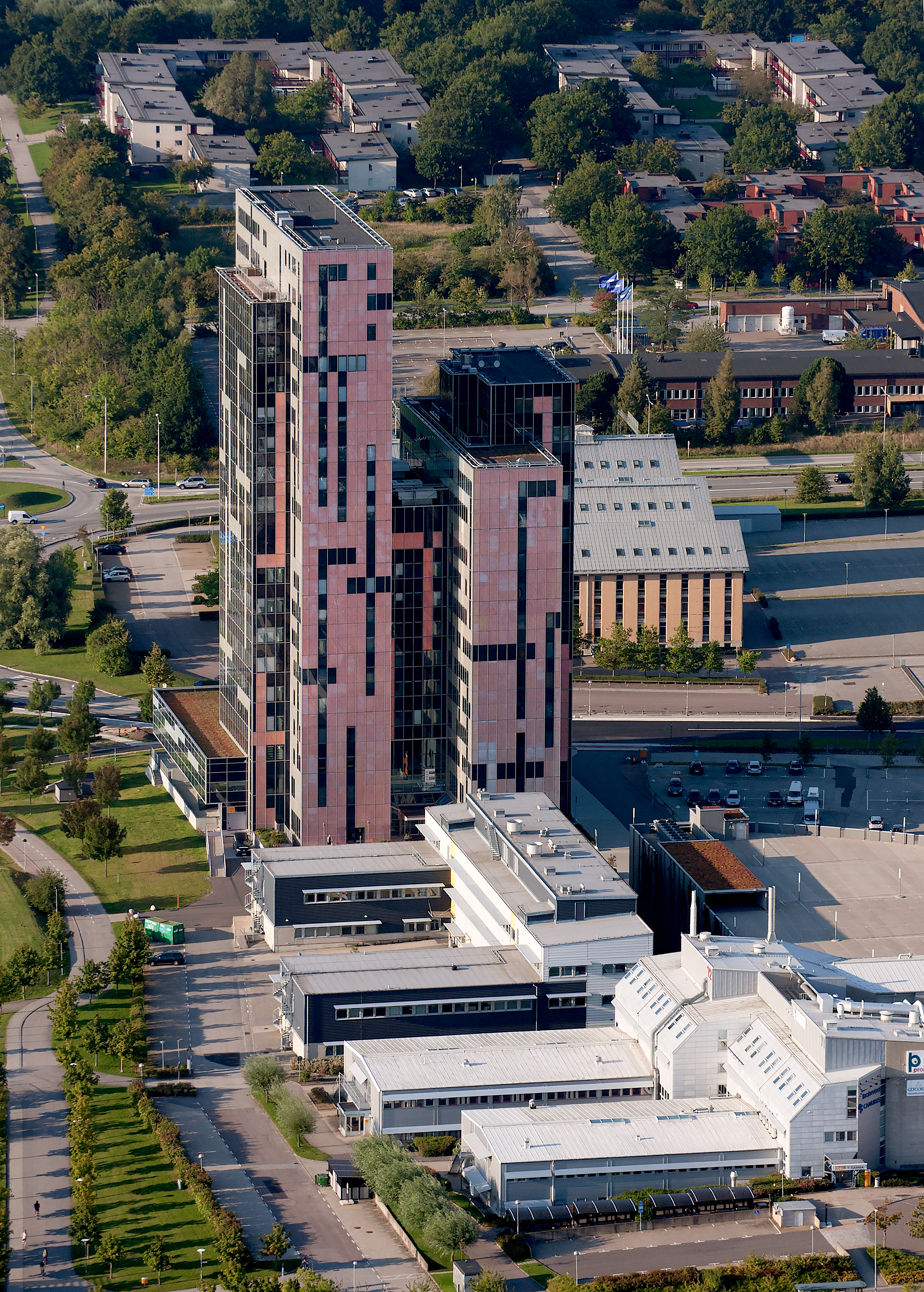 "Ideon Gateway" skyscraper in Lund, Sweden.